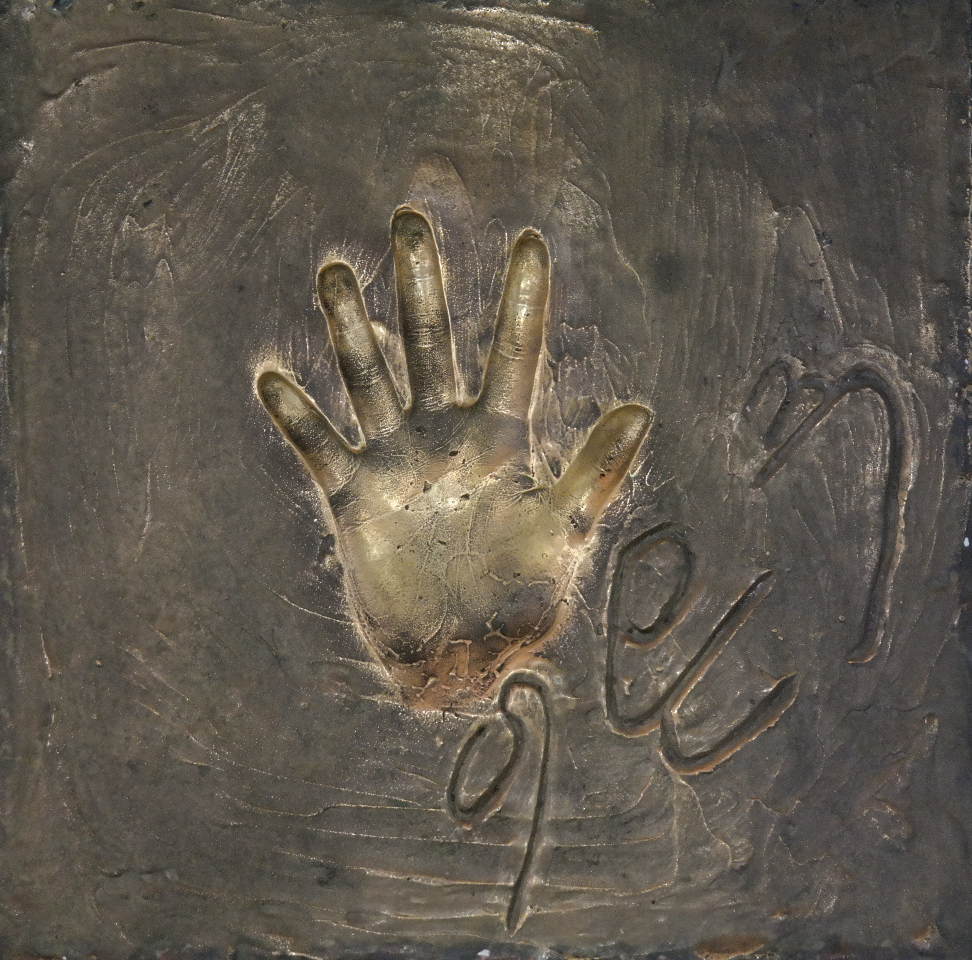 Lee Eun-ju's handprint and signature.